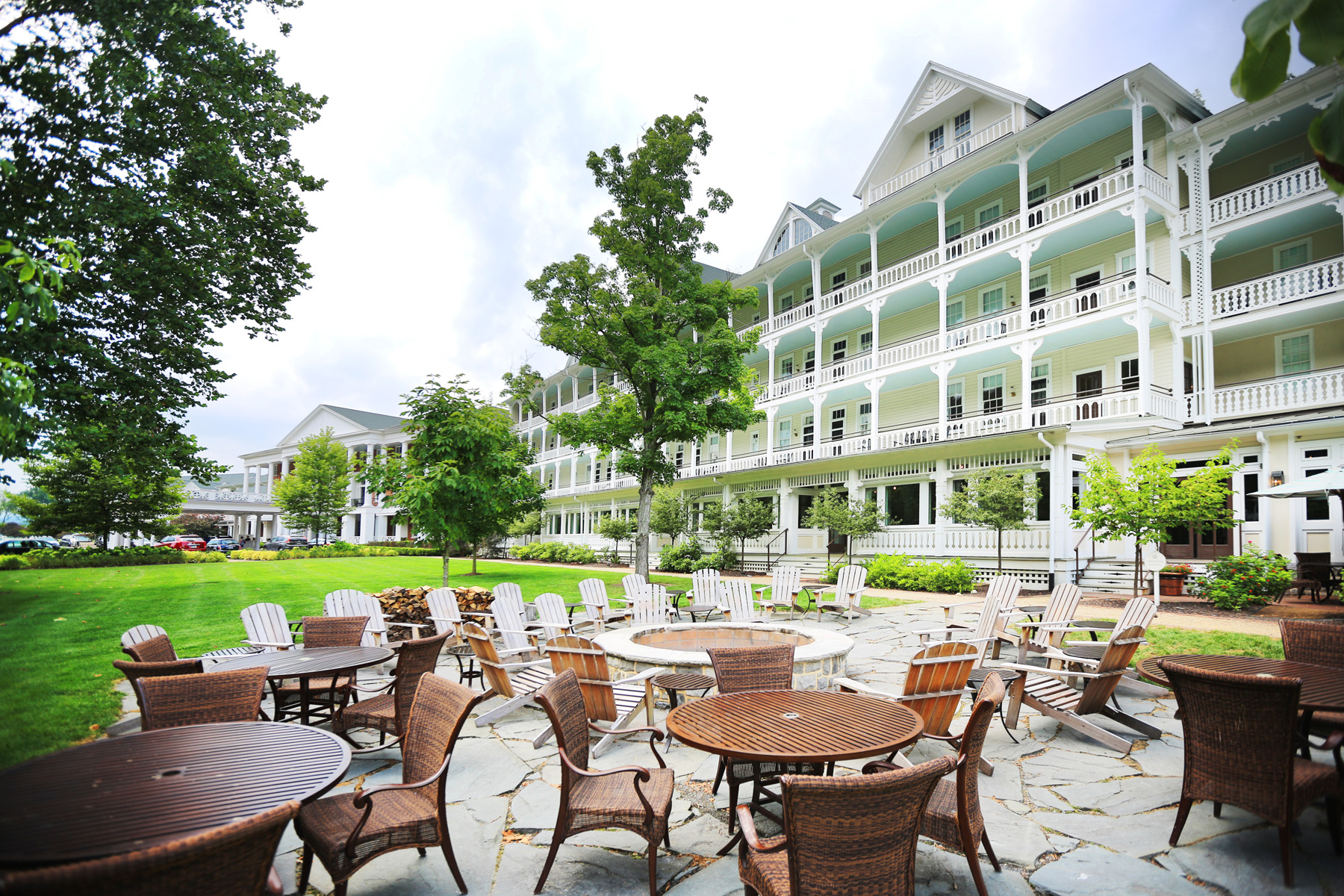 Bedford Springs Hotel Historic District